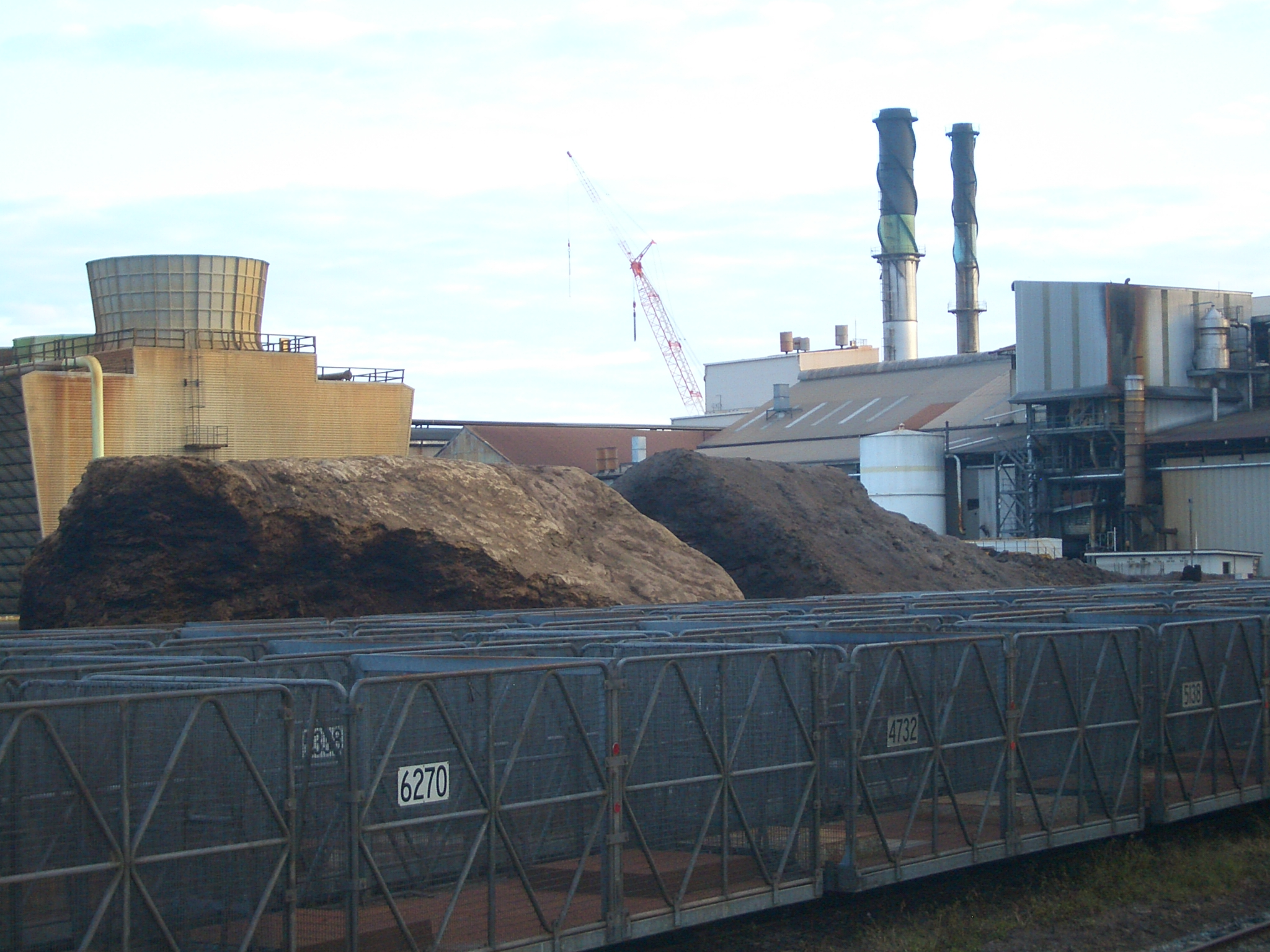 Sugar mill in Proserpine, Queensland, and the mill's narrow-gauge (2 feet) railway. A heap of sugar cane fiber (mulch-like stuff, gradually rotting/composting) can be seen between the railcars and the buildings.